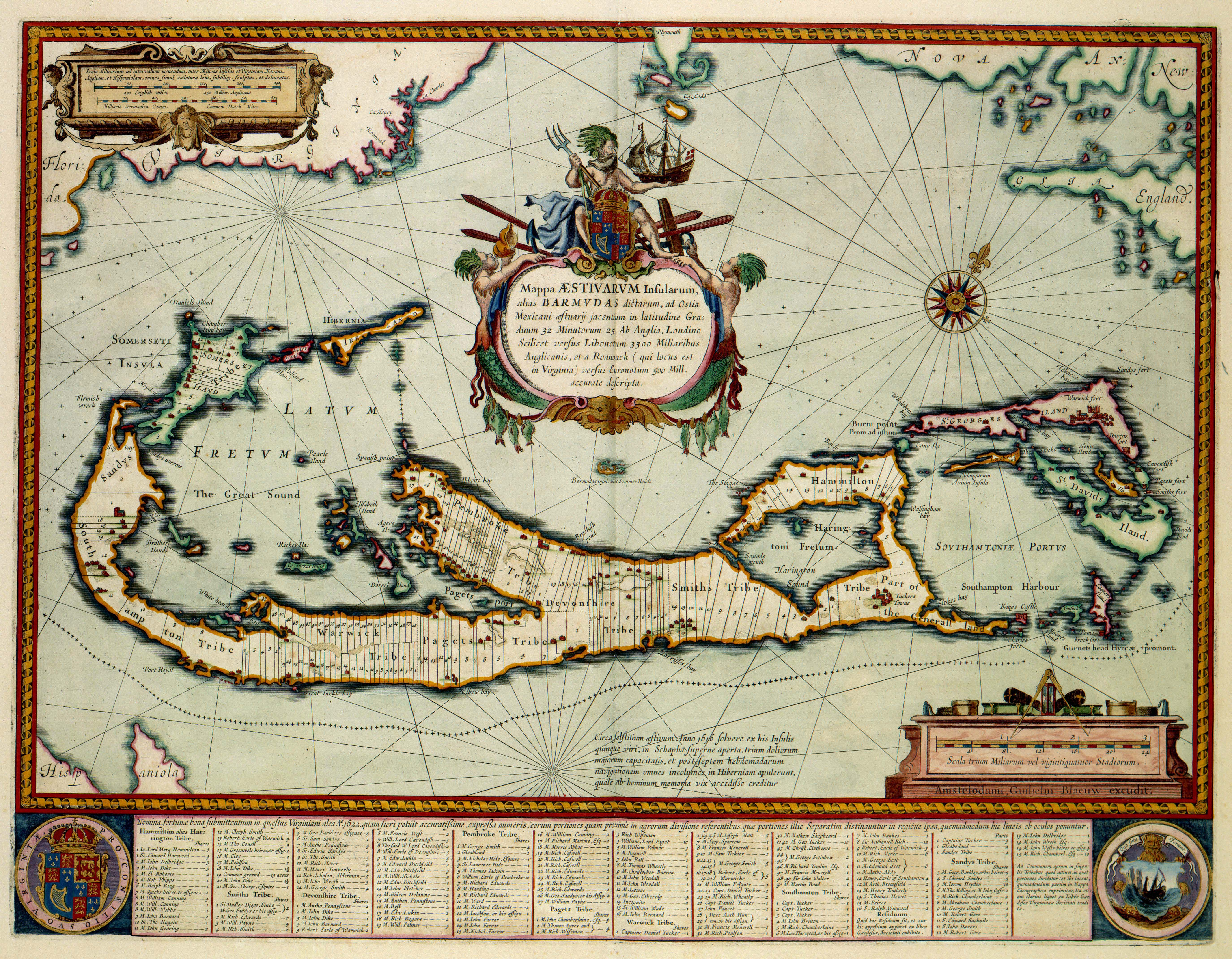 This map of the Bermudas was published by Willem Jansz. Blaeu (1571-1638) in 1630. Blaeu copied the map after an example from 1626 by the English cartographer John Speed (1552-1629), while Speed had used a map by the English surveyor Richard Norwood (1590-1675) from 1622 as his source. The central theme on the map is the distribution of landownerships on the islands. The register along the lower part of the map explaines the distribution of lands and the names of owners.